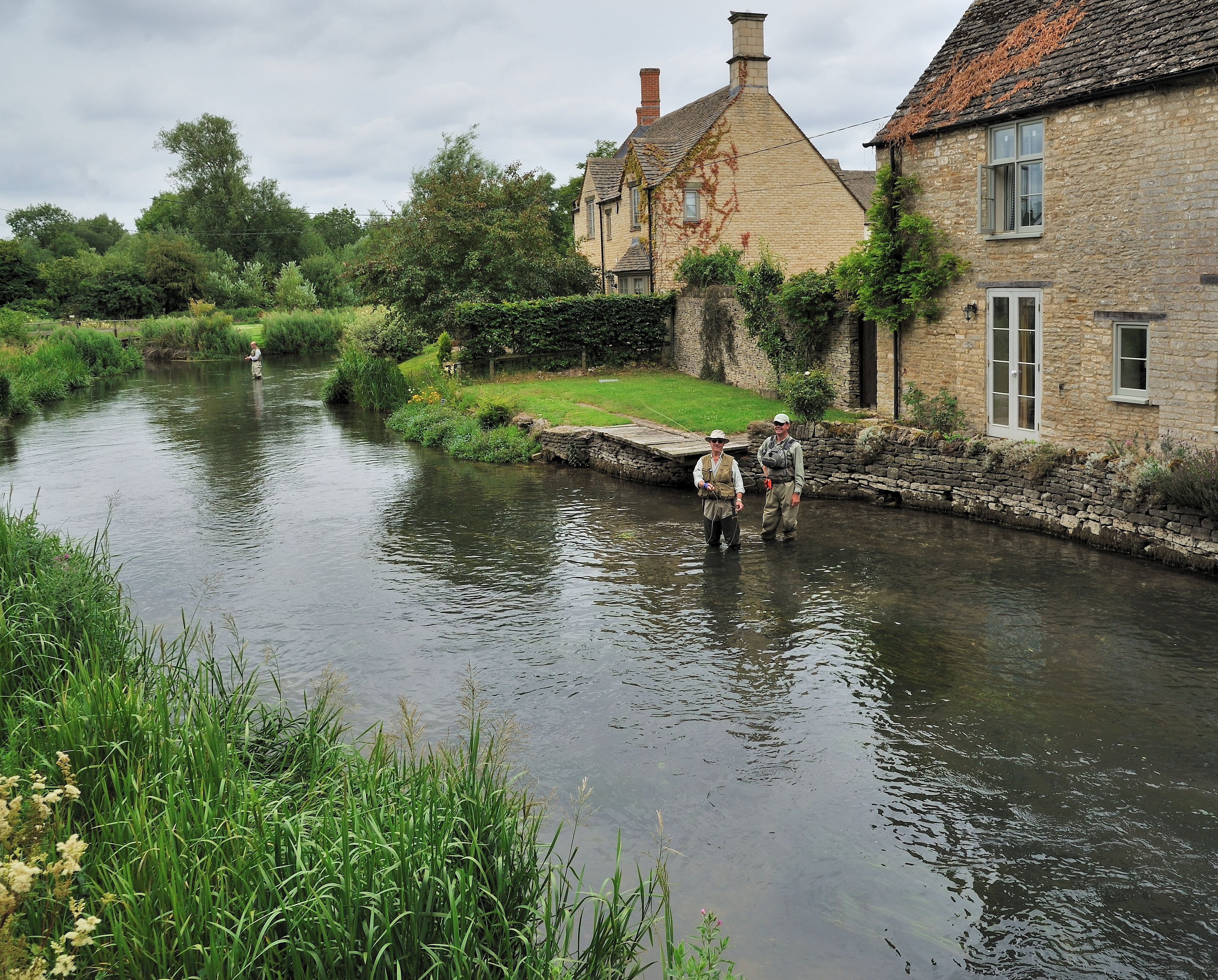 The River Coln as it passes through Fairford.